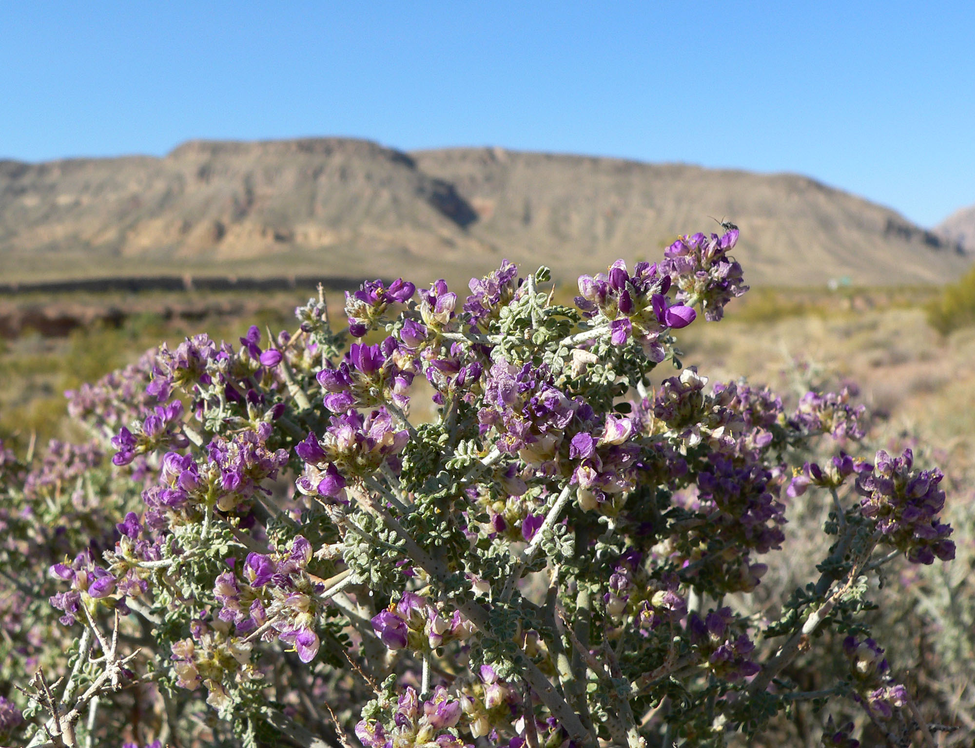 Psorothamnus polydenius at the base of the small knoll 200 m north of the junction of Calico Basin road and route 159, with Blue Diamond Hill in the background, Red Rock Canyon, Spring Mountains, southern Nevada (elev. about 1100 m)